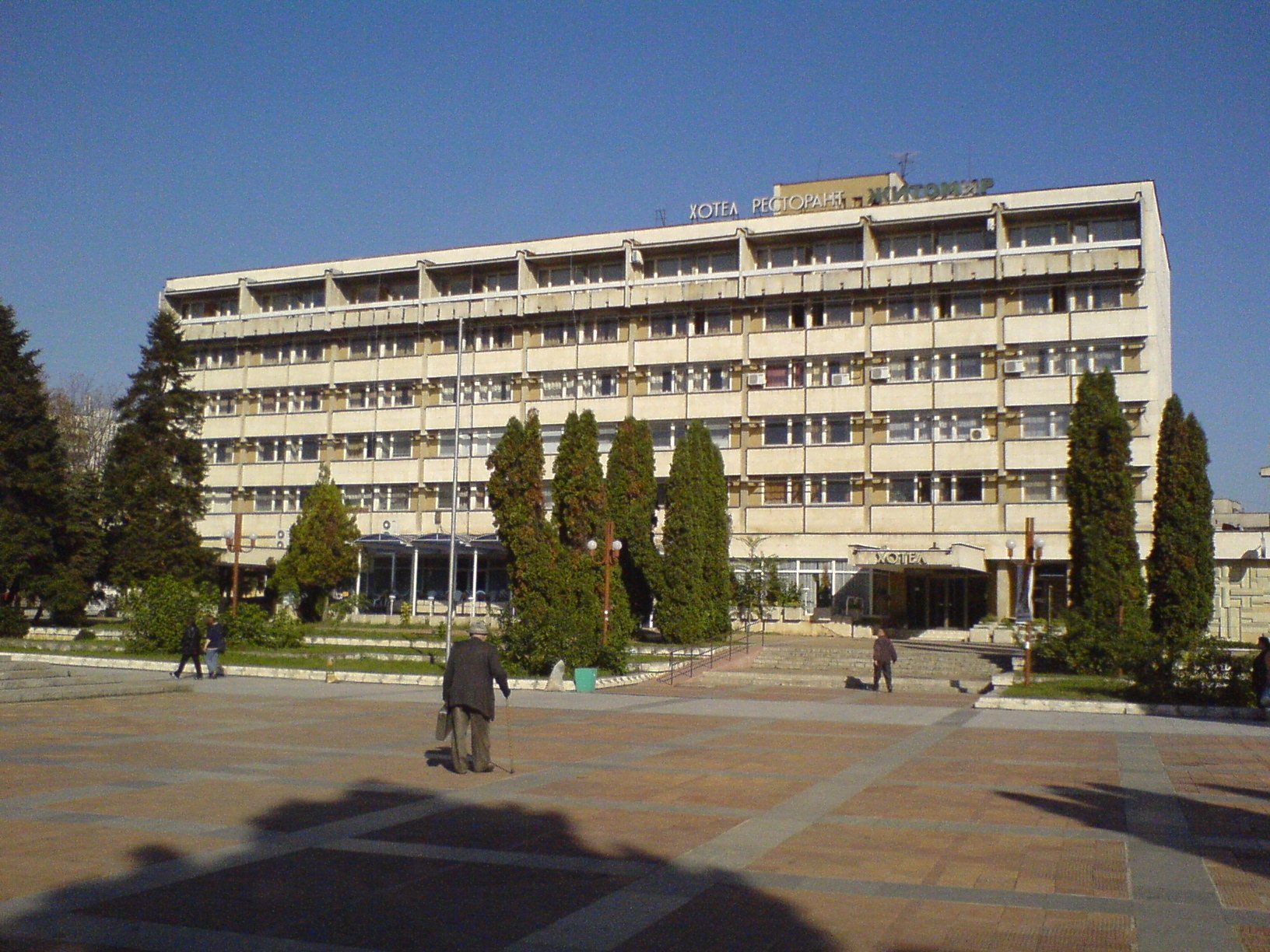 The centre of Montana, Bulgaria - hotel "Zhitomir".